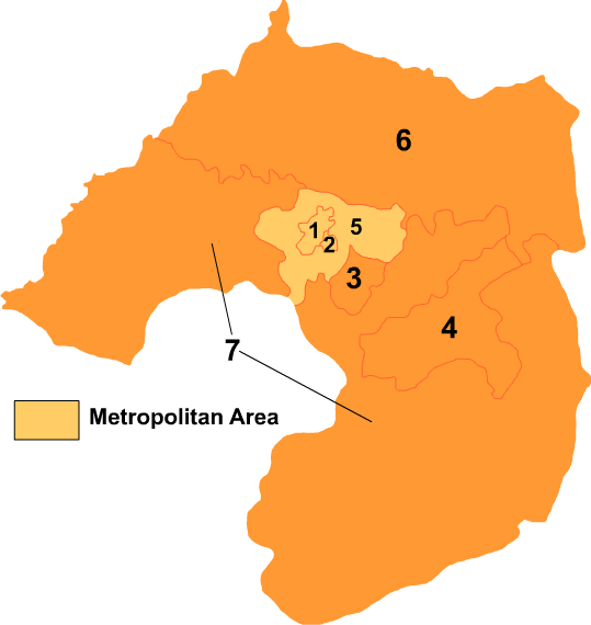 Map of Liaoyang in Liaoning province